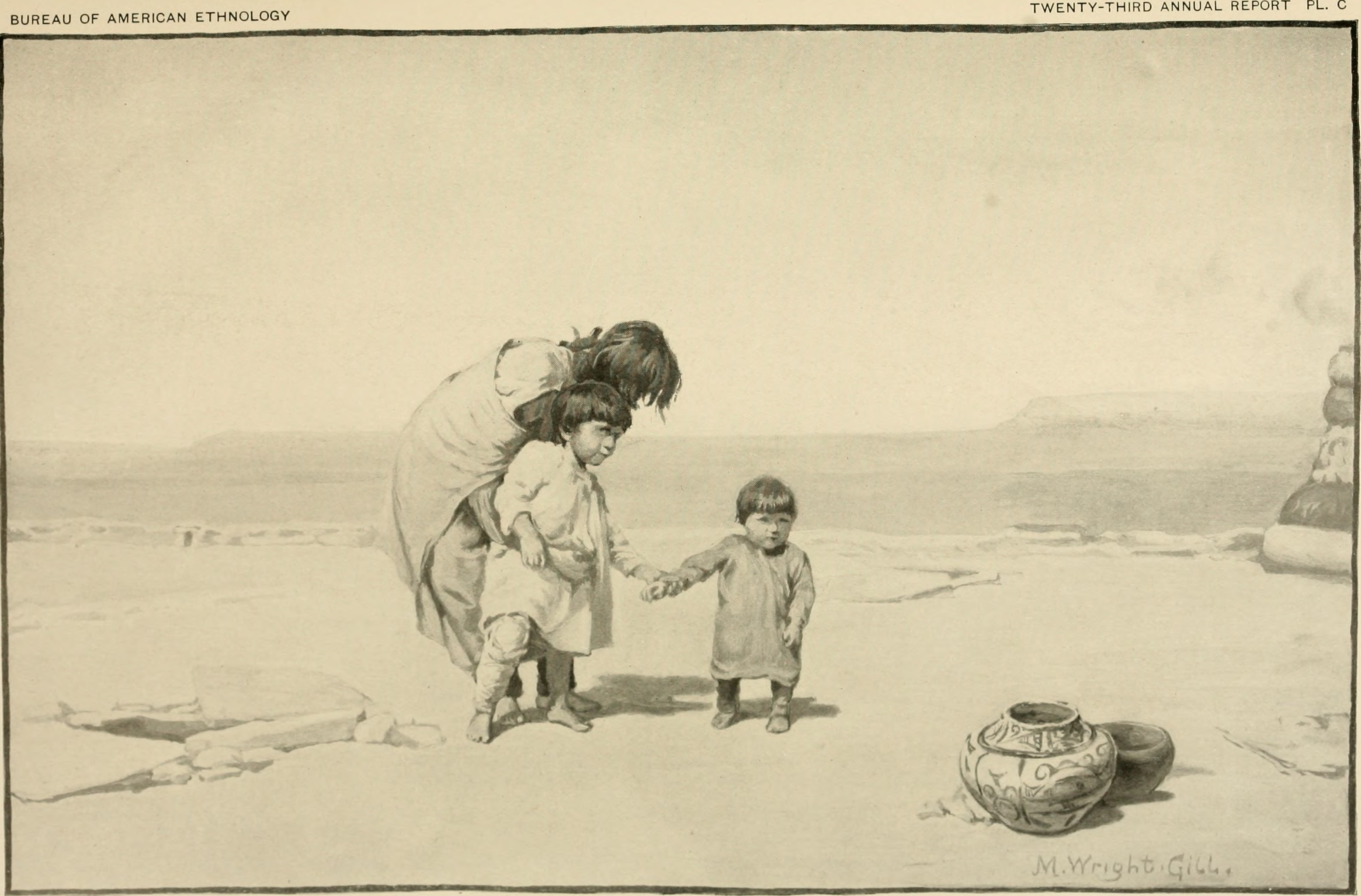 Title: Annual report of the Bureau of American Ethnology to the Secretary of the Smithsonian Institution Year: 1895 (1890s) Authors: Smithsonian Institution. Bureau of American Ethnology Subjects: Ethnology; Indians Publisher: Washington : U. S. Govt. Print. Off. Text Appearing Before Image: ' Text Appearing After Image: '